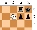 A skeletal smothered mate. Image was originally made using ChessBase 6 and the GIMP by User:Camembert and released to public domain. User:ZeroOne later replaced the image with a screenshot of the Template:Chess diagram which is using GFDL-licenced images.